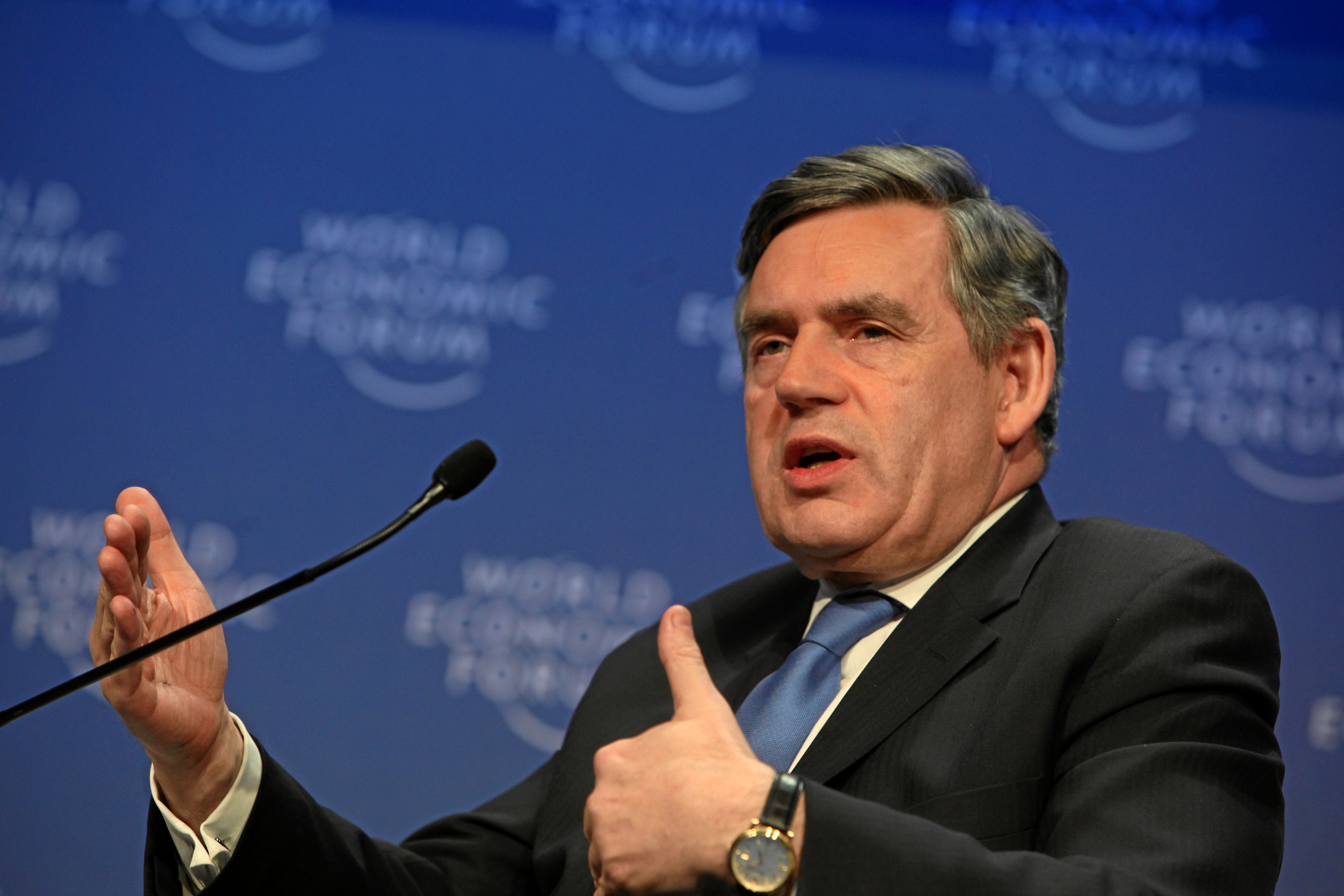 Gordon Brown, Prime Minister of the United Kingdom, captured at the 'Reviving Economic Growth' session at the Annual Meeting 2009 of the World Economic Forum in Davos, Switzerland, January 30, 2009